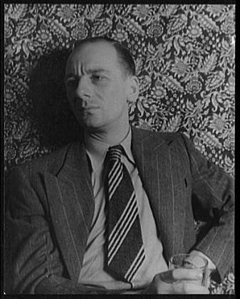 Title: Portrait of John Gielgud Abstract/medium: 1 photographic print : gelatin silver.